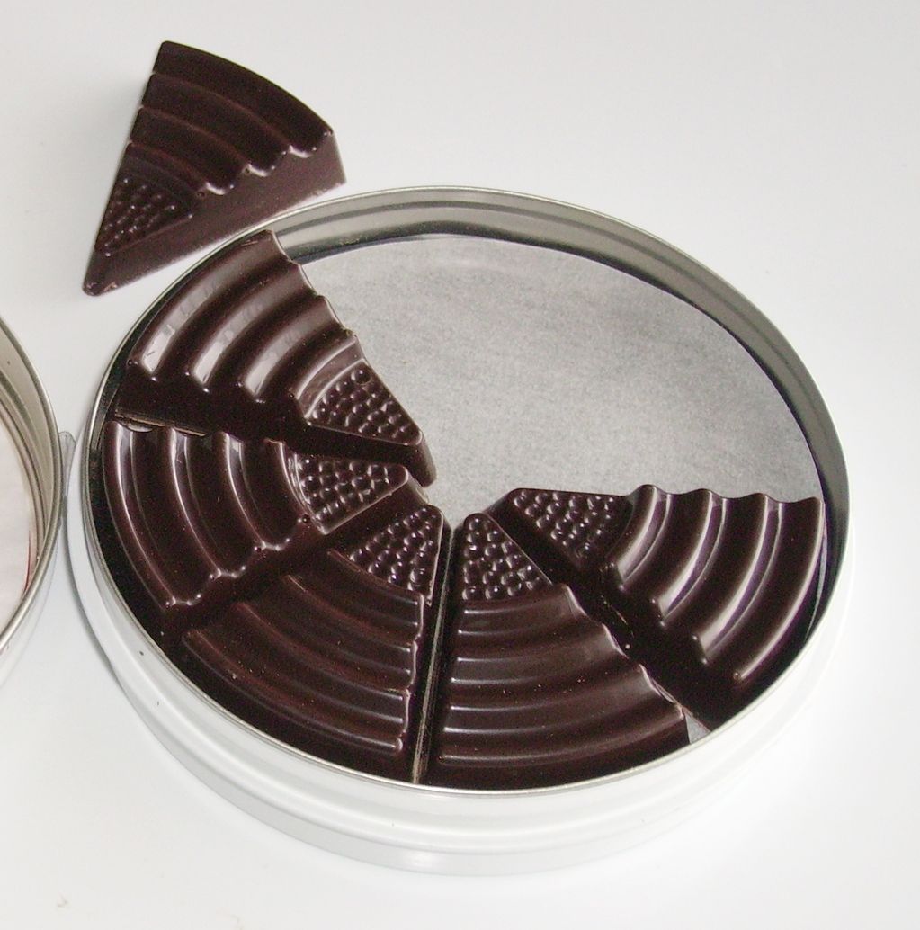 Eighth parts of chocolate